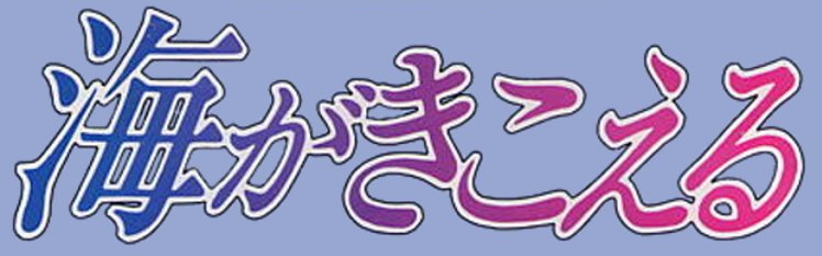 The logo of Ocean Waves, also known as I Can Hear the Sea (Japanese: 海がきこえる Umi ga Kikoeru), from Japanese DVD disc.